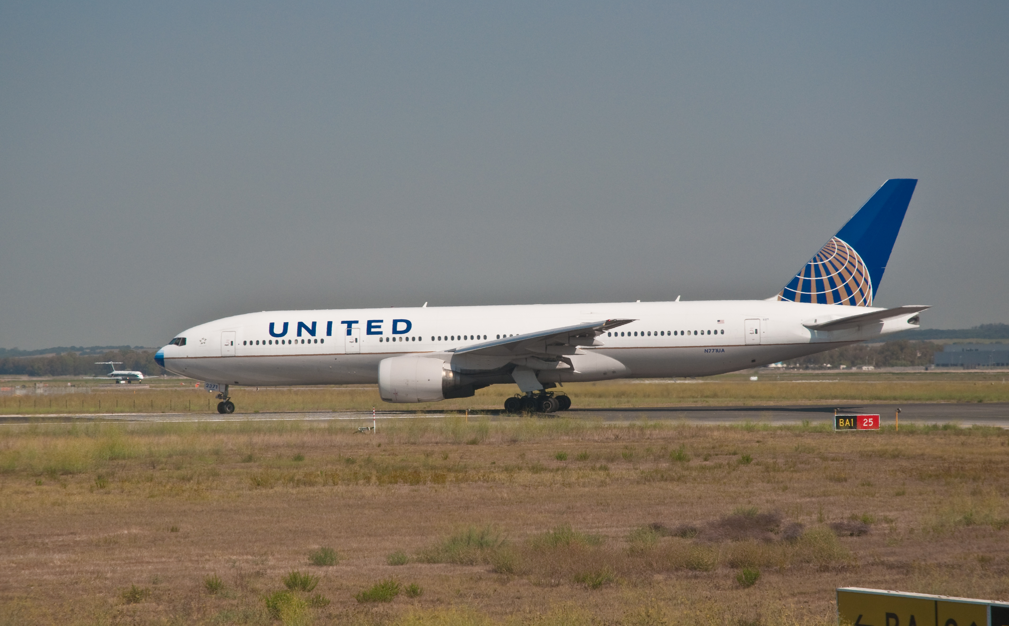 Boeing 777–200 N771UA of United Airlines in Rome Fiumicino Airport, Italy (September 2011).